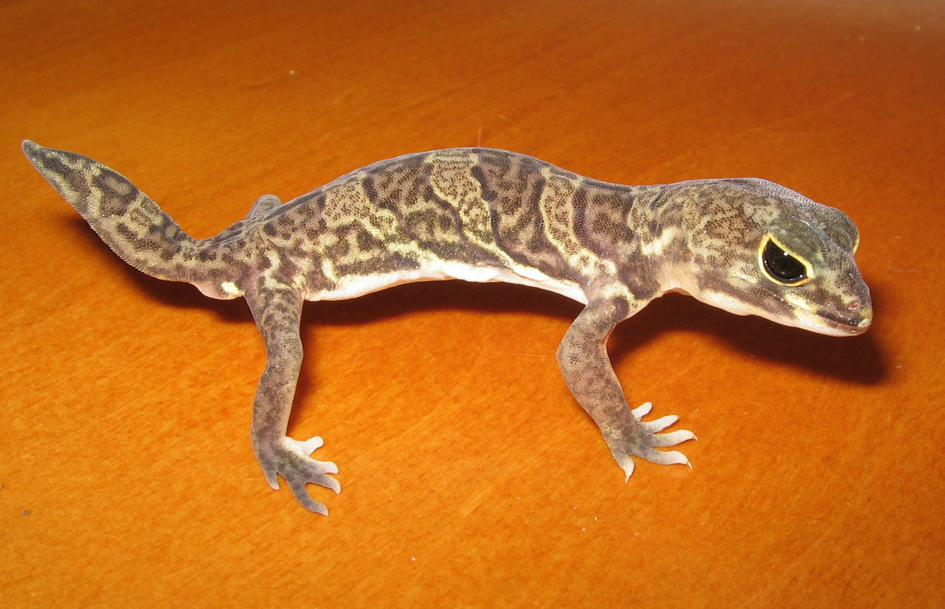 Holodactylus africanus